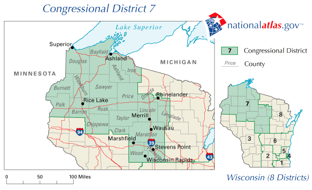 Map of Wisconsin's 7th congressional district. Downloaded from and converted to PNG.